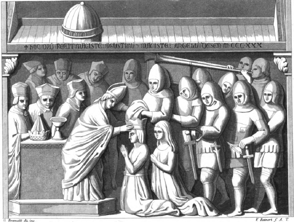 Sculpture showing coronation of Emperor Louis IV with the Iron Crown of Italy by Bishop Guido Tarlati of Arezzo, from Bishop Tarlati's tomb in the cathedral of Arezzo